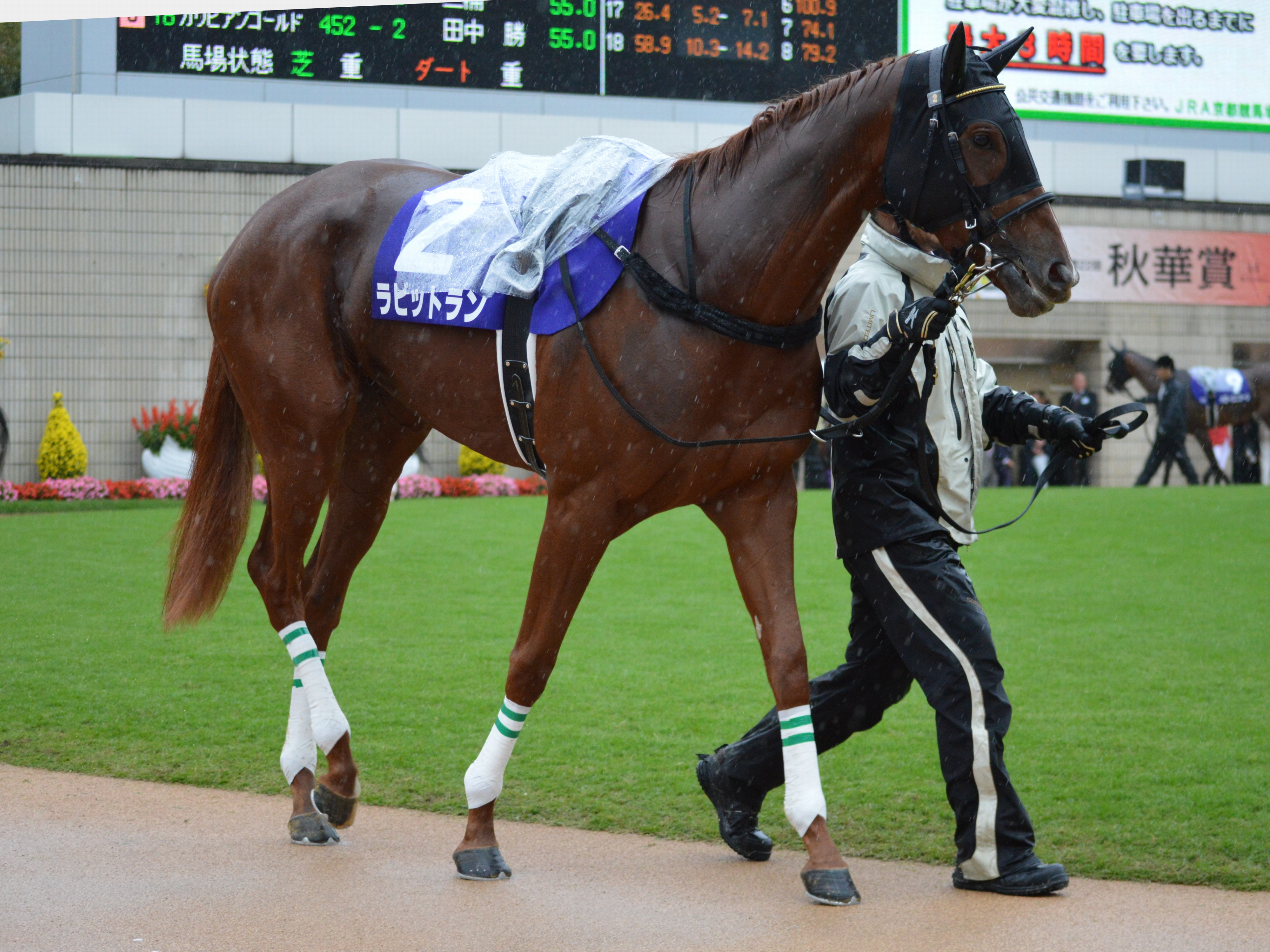 Japanese race horse Rabbit Run at Kyoto racecourse. Kyoto (JPN) 15 Oct 2017Shuka Sho (Grade 1) (3yo Fillies) (Turf) 1m2f Yielding RankHorse NameOddsAgeWgtJockeyTrainer1stDeirdre (JPN)53/10F38-9Christophe-Patrice LemaireMitsuru Hashida6thRabbit Run (USA)83/10F38-9Ryuji WadaKatsuhiko SumiiOthers are omitted. (18 horses entered in a race.)